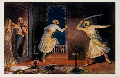 The ongoing exhibiton at the Museum 'M.V. Dhurandhar: The Artist as Chronicler' includes a series on Chhatrapati Shivaji Maharaj's life. These are illustrations from books commissioned by Balasaheb Pantapratinidi, Raja of Aundh. These works resulted from the numerous trips Dhurandhar made with Purshottam Mawji, who wrote a history of Shivaji Maharaj’s military and its role during warfare. Dhurandhar has skillfully captured the valour, aura and a humanitarian side of Chhatrapati Shivaji Maharaj. Swipe to see the following paintings: 1. The Coronation Durbar with over 100 characters depicted in attendance 2. Shivaji Maharaj in Aurangzeb's Durbar 3. Escape from Panhala 4. Tanaji's famous vow during Kondana campaign “Aadhi lagin kondhanyache mag mazya Raybache” 5. Shaistekhan Surprised 6. On the way to Purandar Join us at the Museum on 30th September 2018 at 5 pm for a traditional Powada performance which will bring these histories to life by folk theatre artists Ganesh Chandanshive, Shahir Yashwant & others! Museum entry ticket applicable